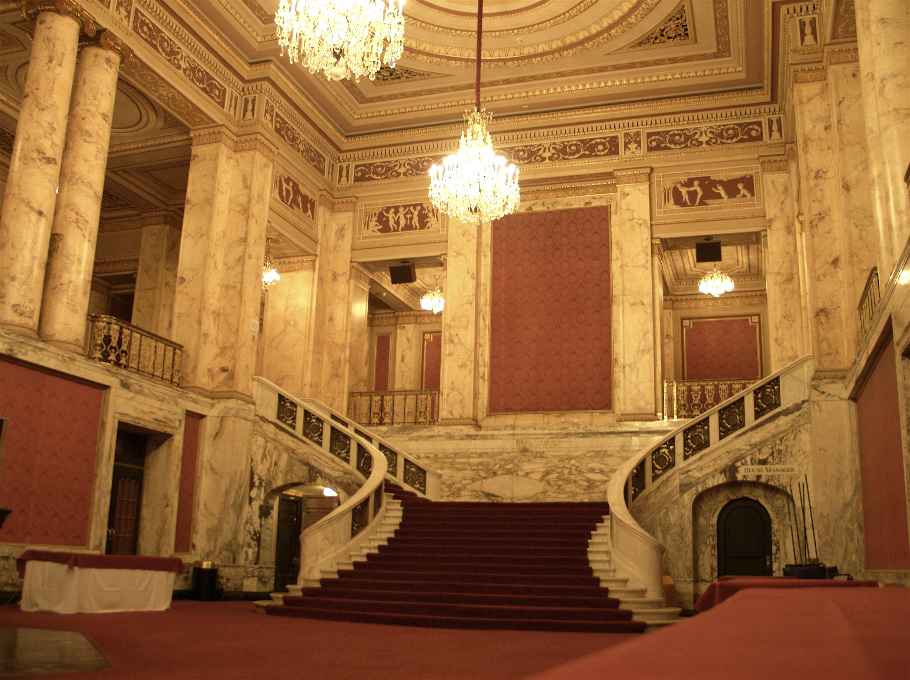 Lobby of the Palace Theater in Cleveland, Ohio